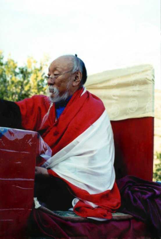 photo of Chagdud Tulku Rinpoche